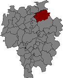 Location of Sant Pere de Torelló in Osona